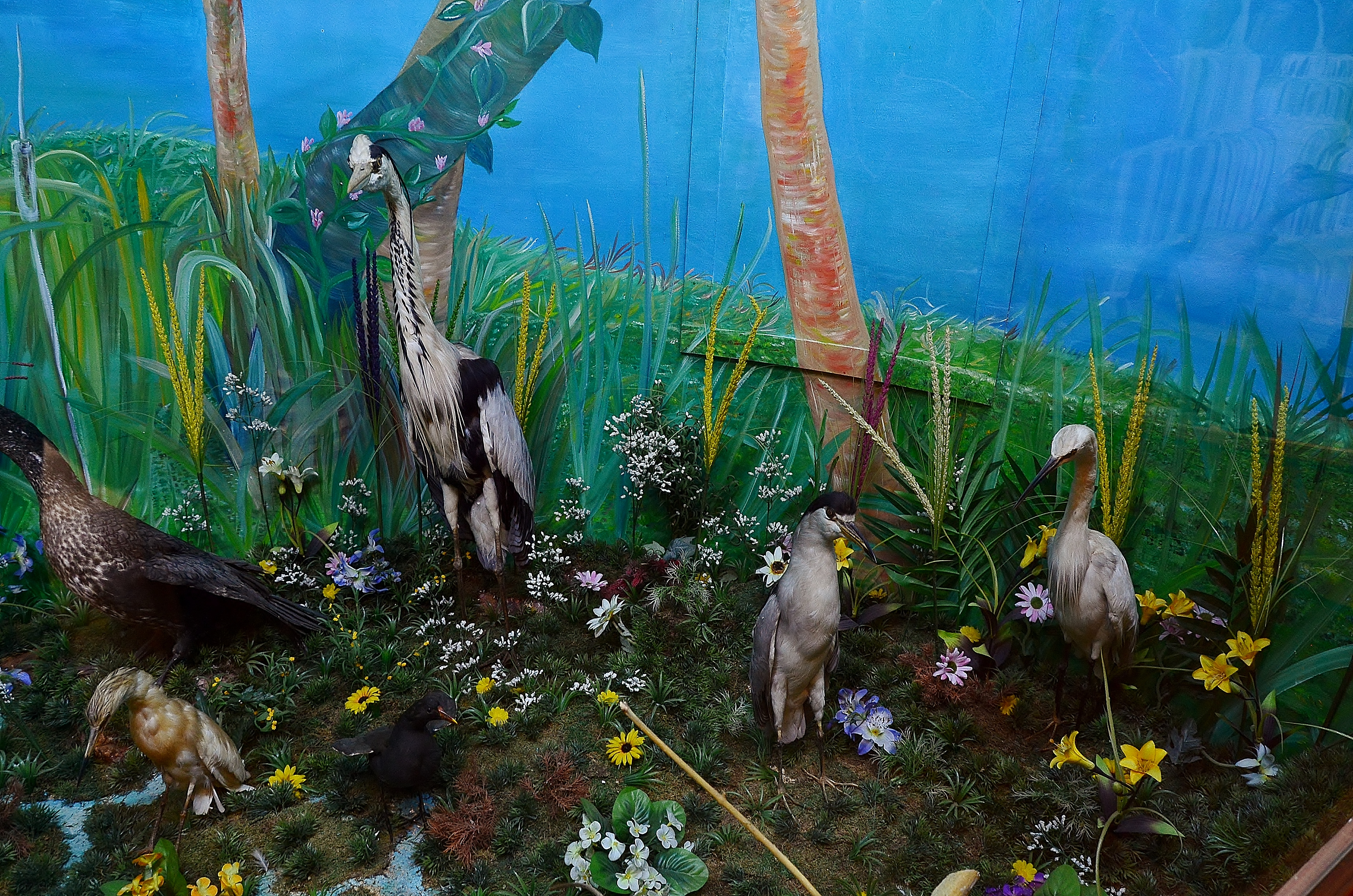 Taxidermied birds in the Natural history section of Kırklareli Museum